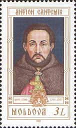 Stamp of Moldova